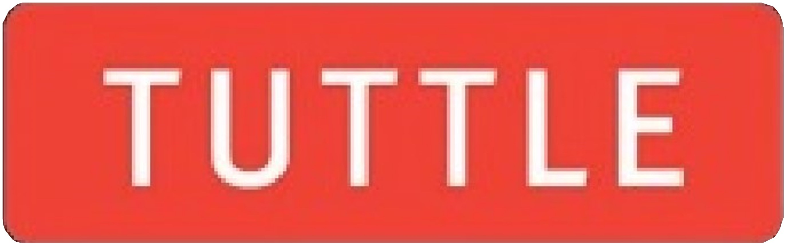 Present logo of Tuttle Company